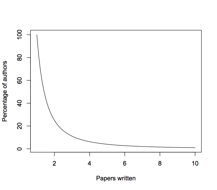 R to replicate this graph X=seq(1,10, by=.1); C=1; n=2 Y= C/X^n plot(X,Y*100, type="l", xlab="Papers written", ylab="Percentage of authors")